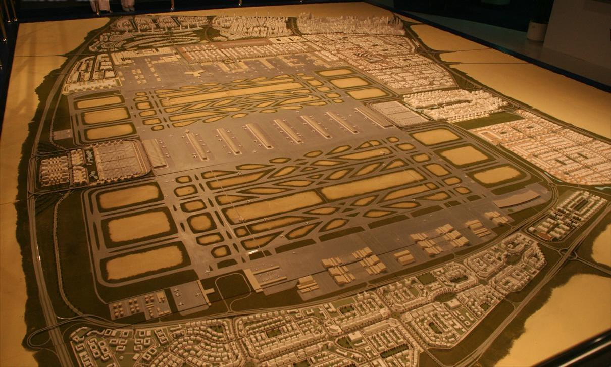 Project of greatest airport in the world.